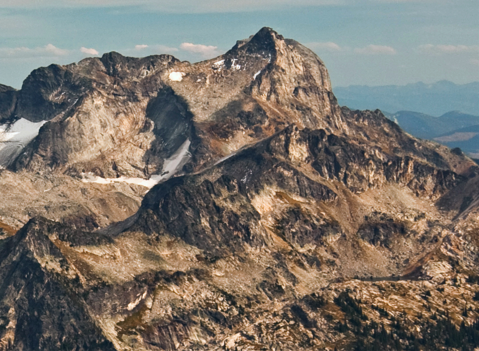 Valhallas' Midgard Peak seen from north